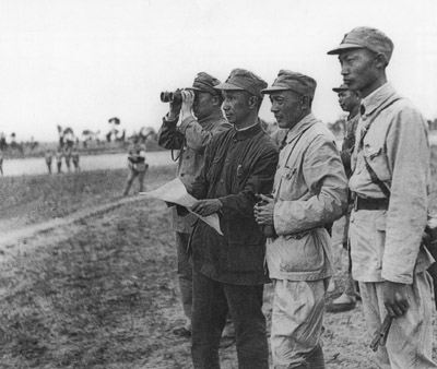 Su Yu (粟裕), the 2nd from the left, was investigating the front field before the Menglianggu Campaign started. This picture was taken at 1947, the copyright has expired.